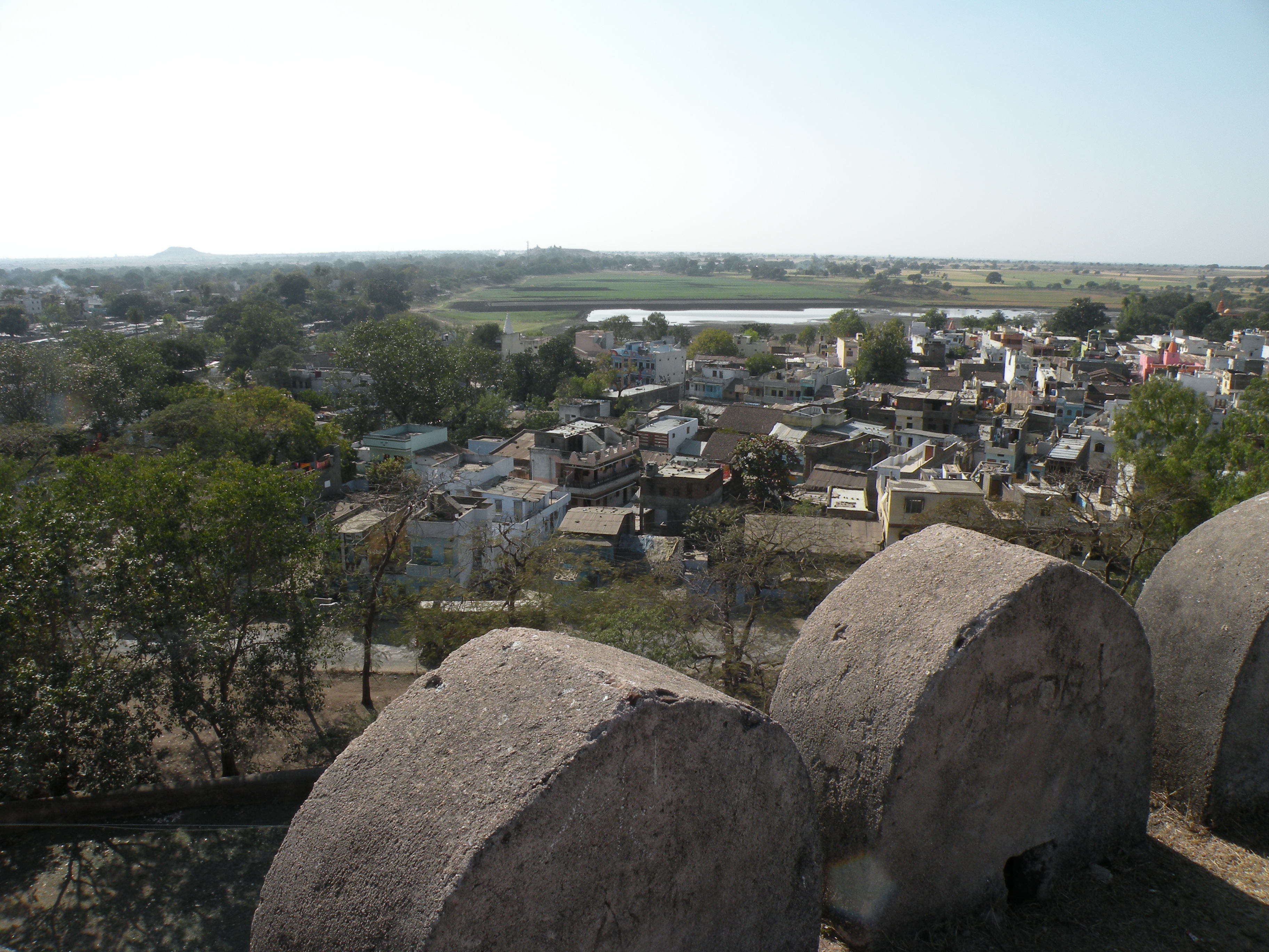 View of the town of Dhar (Madhya Pradesh) from the parapet of the fort.